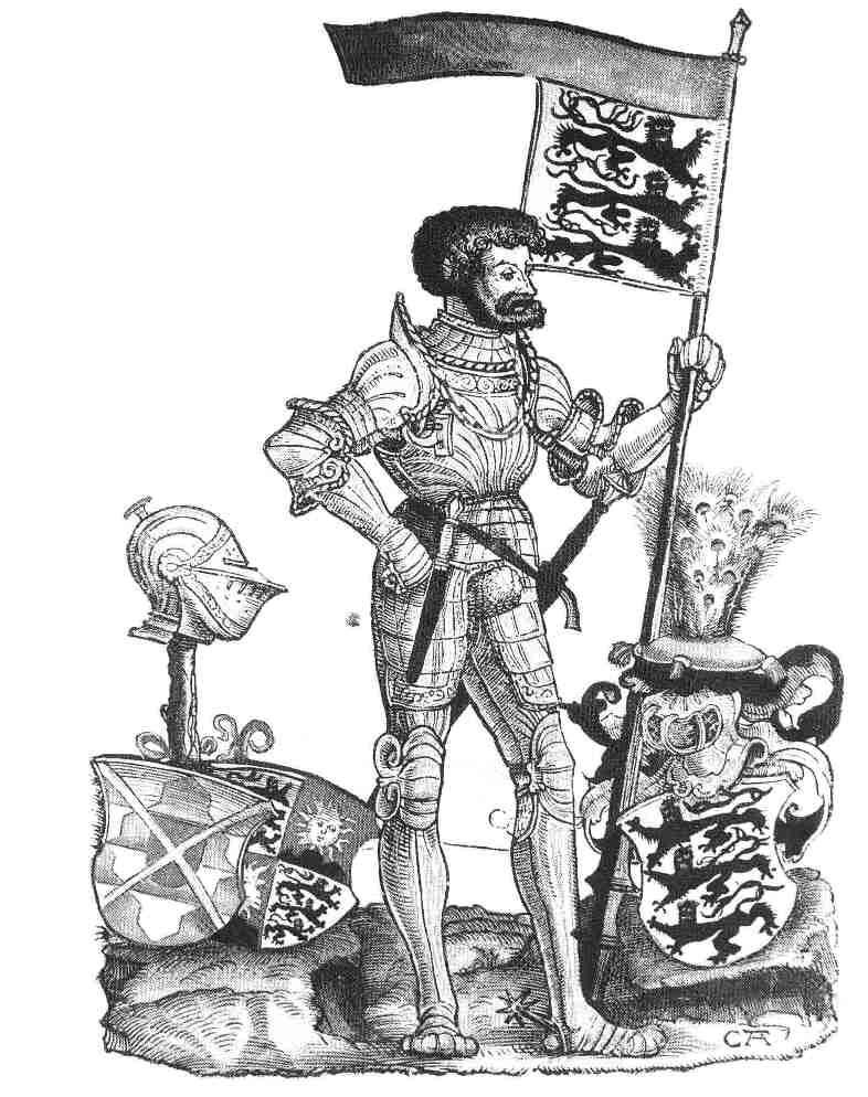 Georg III. Truchsess von Waldburg. Picture by Christoph Amberger, 16th century